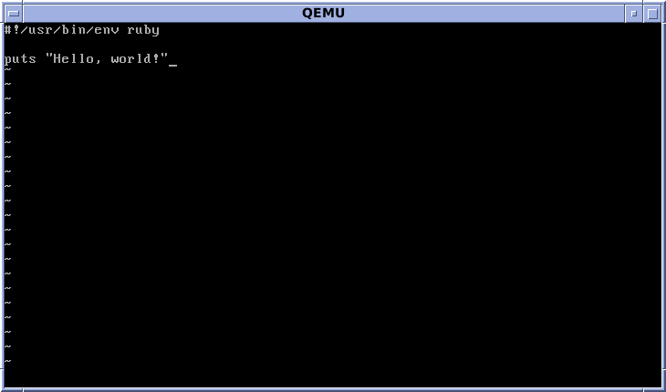 The vi editor in OpenBSD 5.3, editing a small "Hello, world!" type Ruby program. This is the "nvi" implementation, the reimplementation of vi by the Berkeley CSRG following the AT&T lawsuits. Running in a QEMU VM.